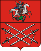 Ruza (Moscow oblast), coat of arms (1781)